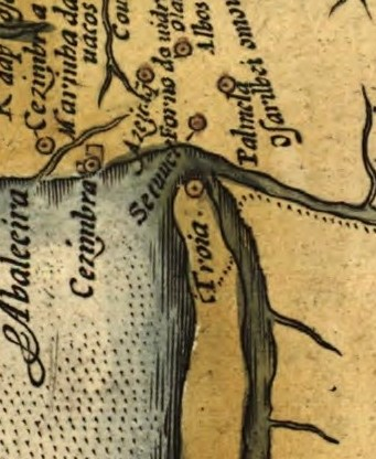 Portugalliae que olim Lusitania, novissima & exactissima descriptio. [1] Adaptation in the "Theatrum Orbis Terrarum" (1570) de Abraham Ortelius from the alleged first map of Portugal (1560) by Álvaro Seco.